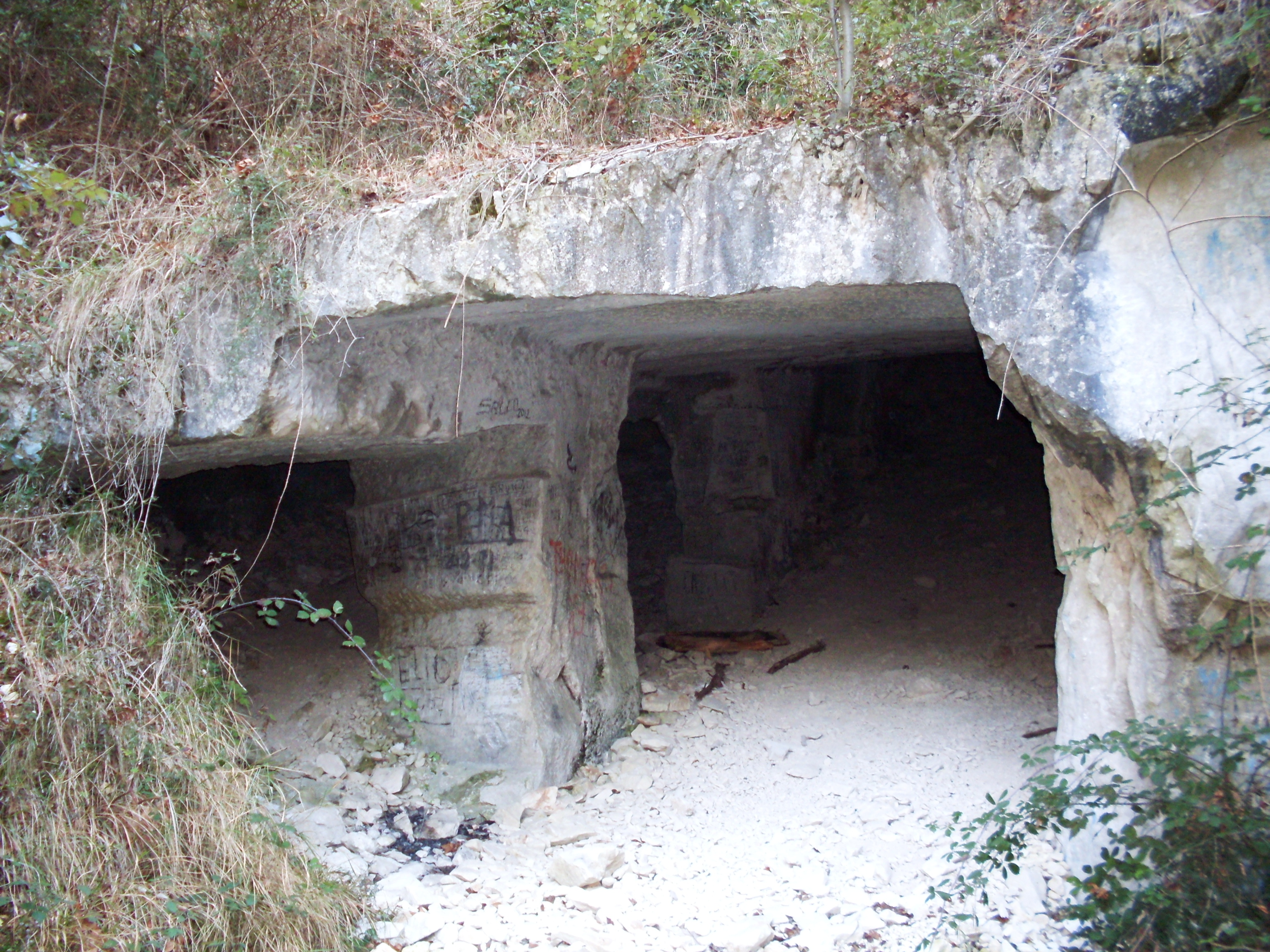 Italy Ancona mount Conero - Roman caverns quarry